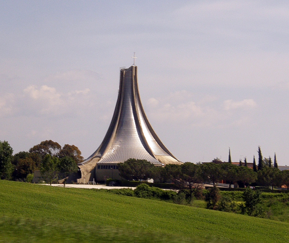 near the Autostrada 25